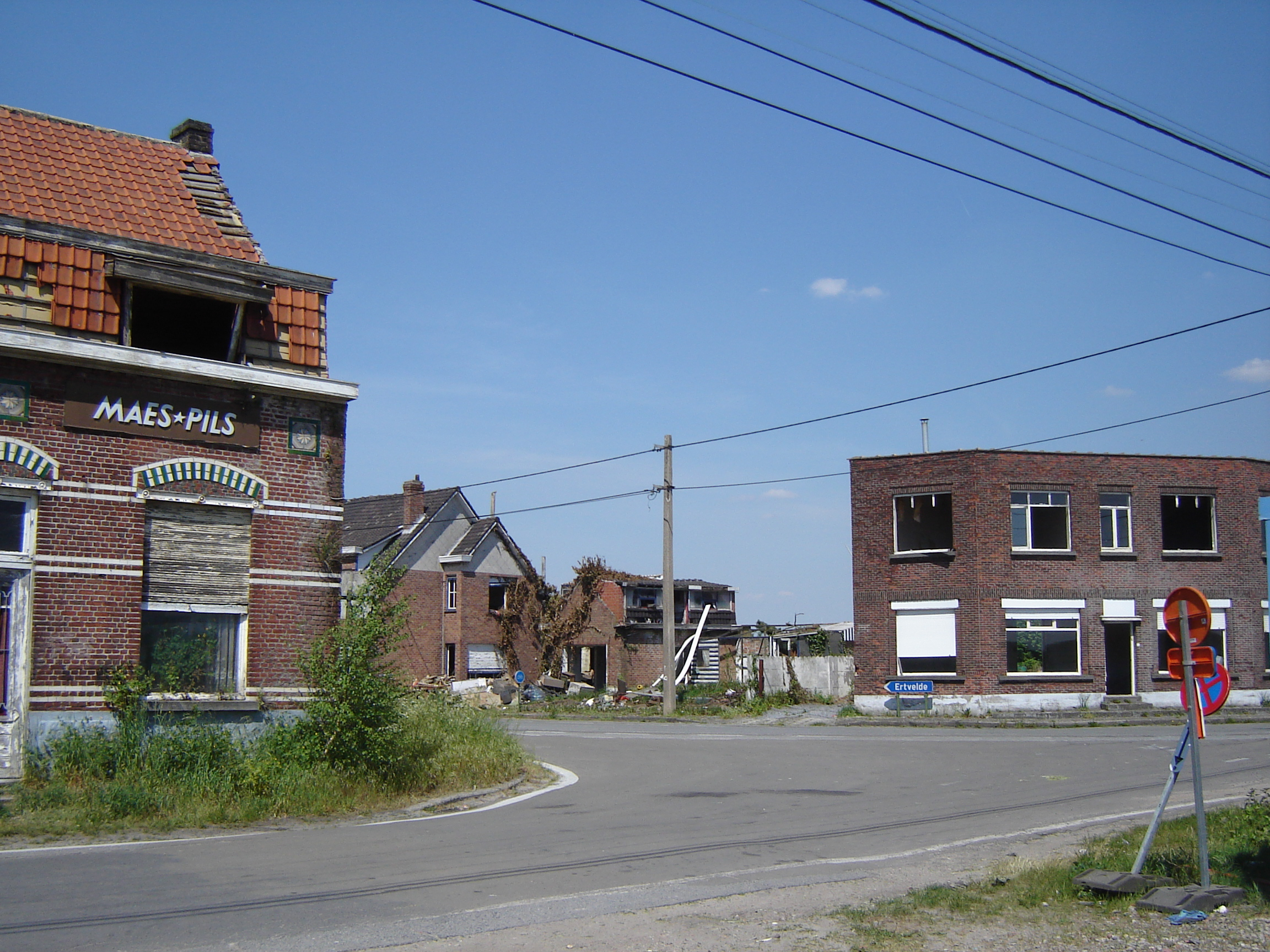 Zandeken hamlet in Evergem. Disappears in 2008 to make room for the expansion of the port of Gent (Kluizendok dock). Corner of Zandeken and Hoogstraat streets. Evergem, East Flanders, Belgium